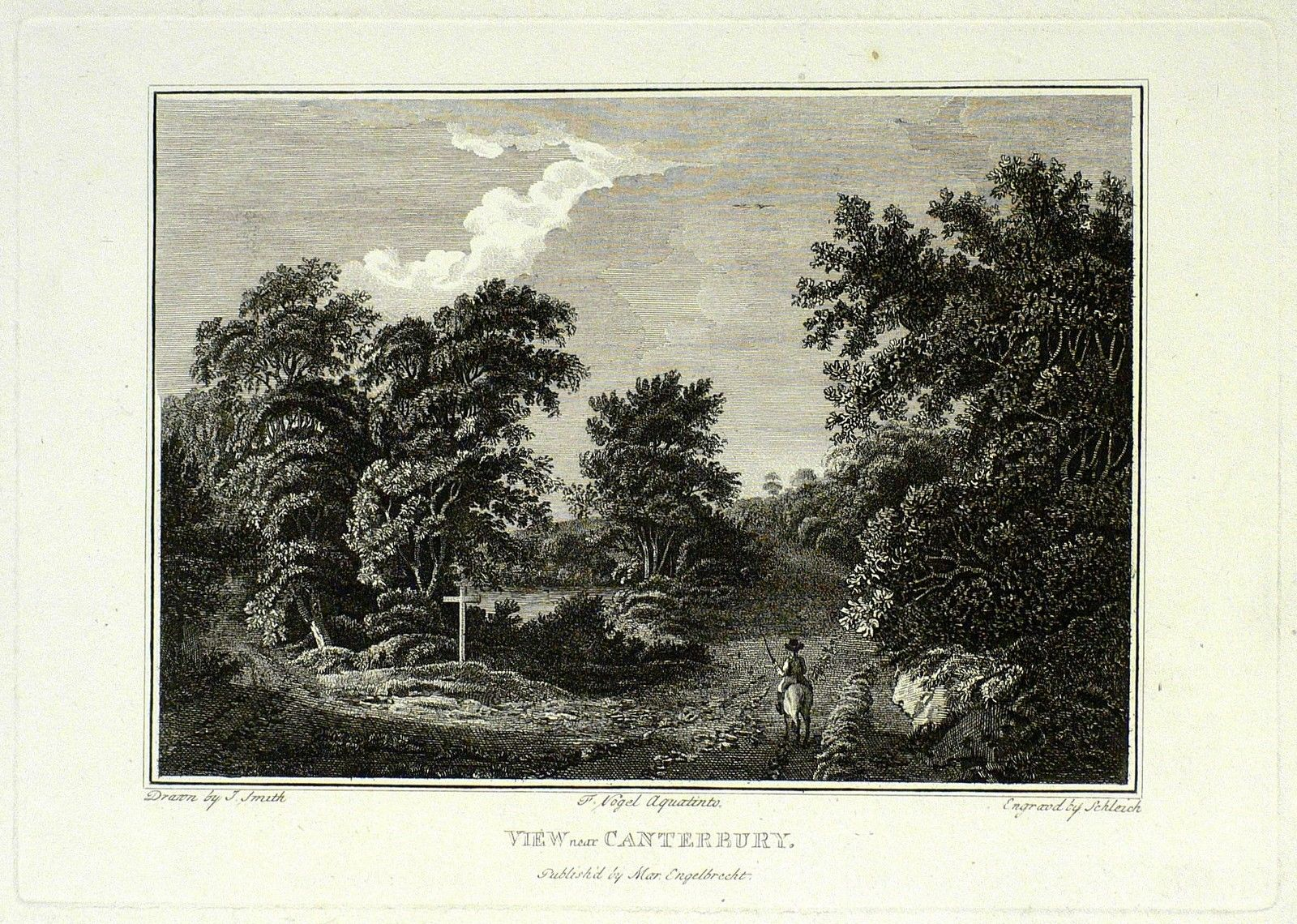 View near Canterbury